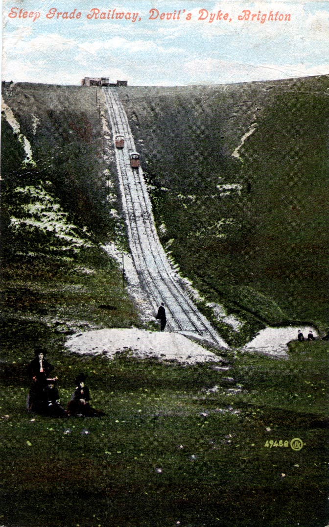 Image on a postcard dated August 8th, 1908. Scanned by Chrismcbrien.